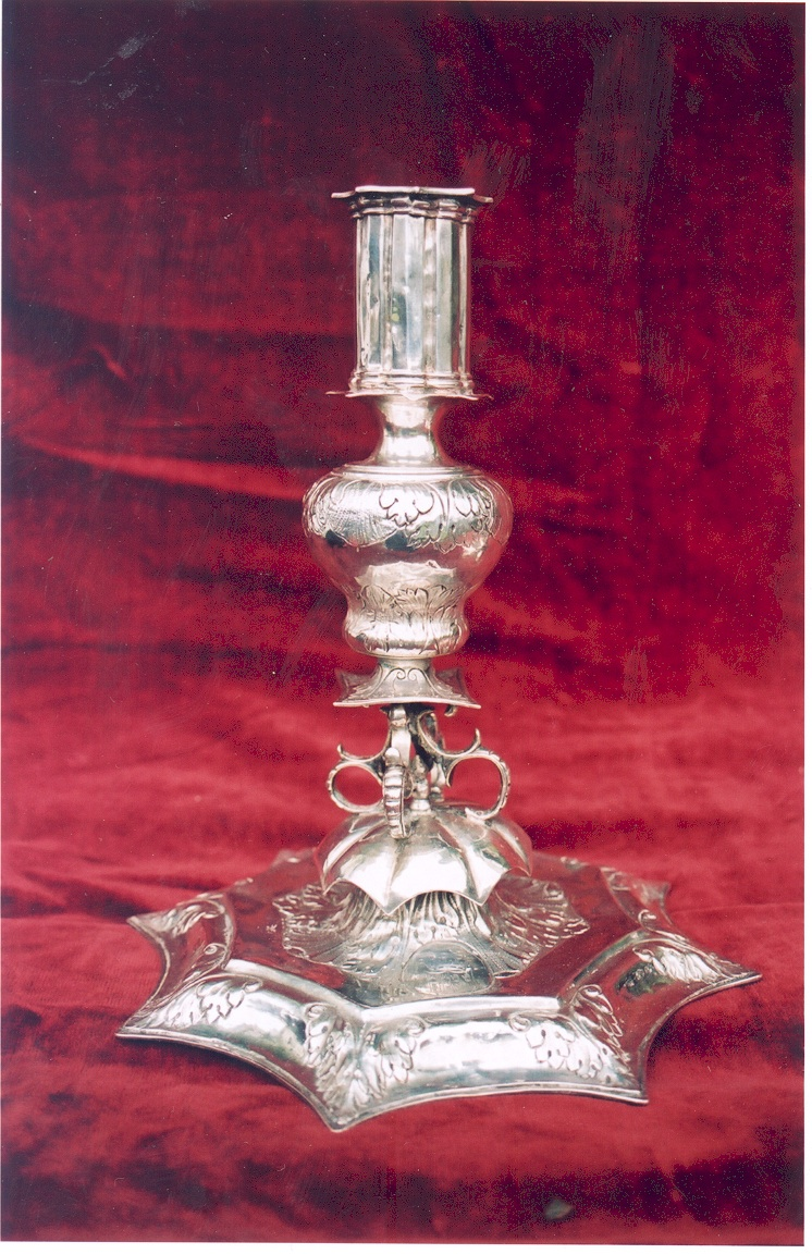 Sterling silver candlestick, One of a pair of candlesticks made for Lady Rachel Fane, aka Countess of Bath, aka Countess of Middlesex, the widow of Sir Henry Bourchier. Marked for silversmith Robert Cooper, London, and 1679/80. They bear the arms of Bourchier impaling Fane. On loan to Ashmolean Museum, Oxford (2006-)